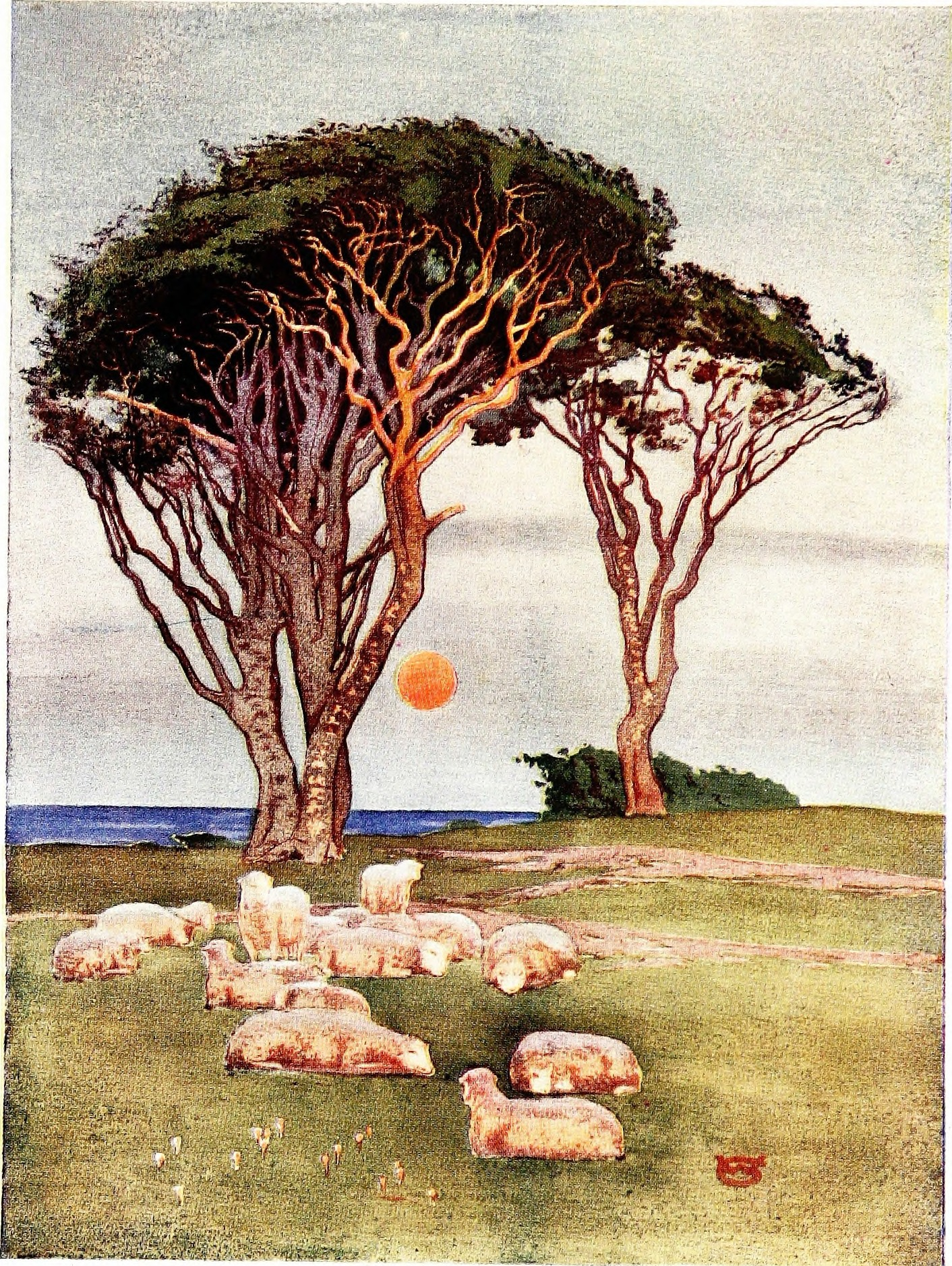 Title: Modern etchings, mezzotints and dry-points Year: 1913 (1910s) Authors: Holme, Charles, 1848-1923 Salaman, Malcolm C. (Malcolm Charles), 1855-1940 Taylor, E. A Zilcken, Ph., 1857-1930 Levetus, A. S Deubner, Ludwig, 1877-1946 Laurin, Thorsten Subjects: Etching Mezzotint engraving Dry-point Publisher: London, New York (etc.) "The Studio" ltd. Text Appearing Before Image: THE MAD KINGS CASTLE. ORIGINAL MEZZOTINTBY PERCIVAL GASKELL, R.E., R.E.A. 38 GREAT BRITAIN Text Appearing After Image: A MIDSUMMERS NIGHT. ORIGINAL ETCHINGIN COLOURS BY WILLIAM GILES.